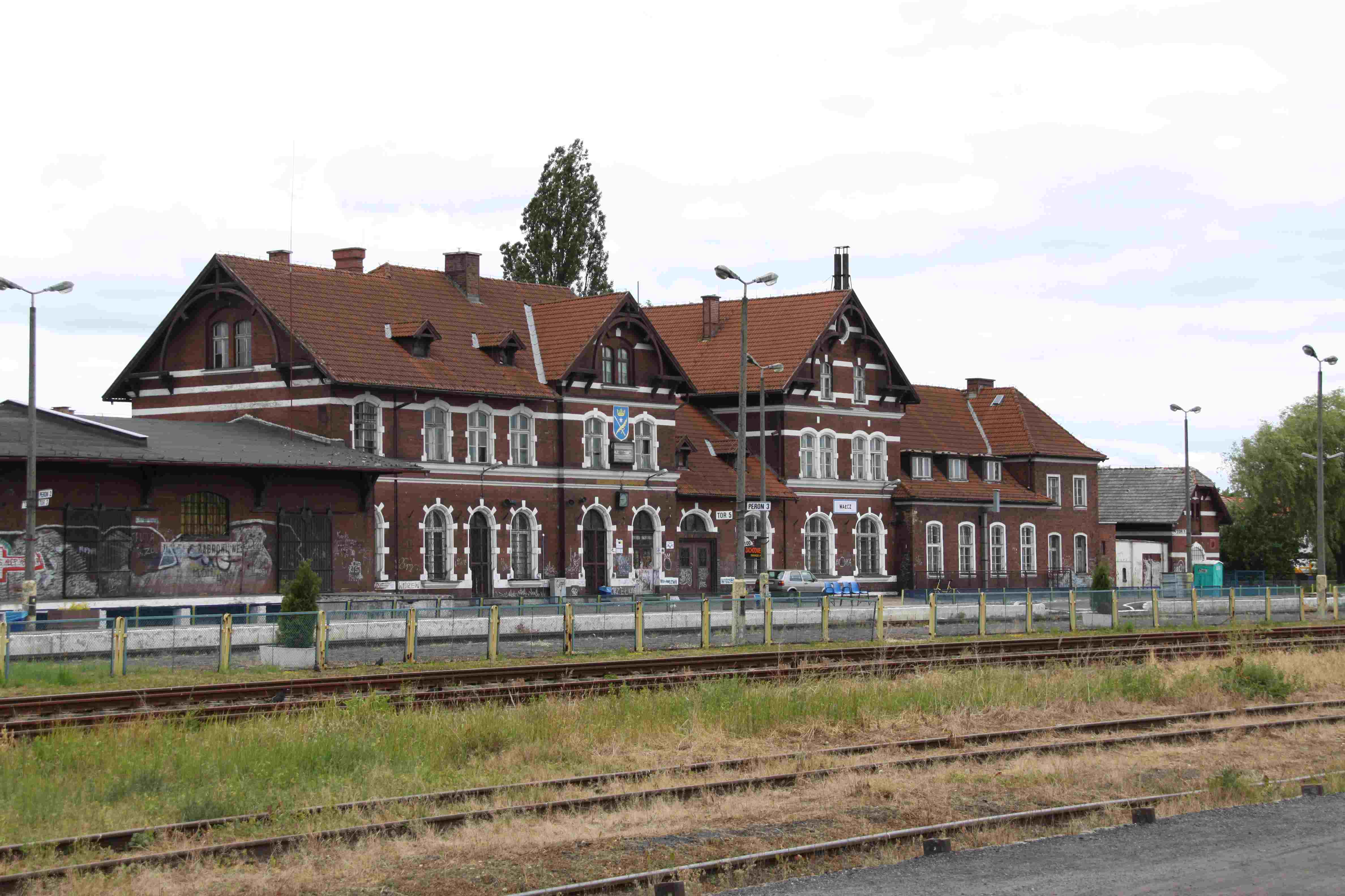 Train station in Wałcz, PolandBahnhof Deutsch Krone (Walcz)